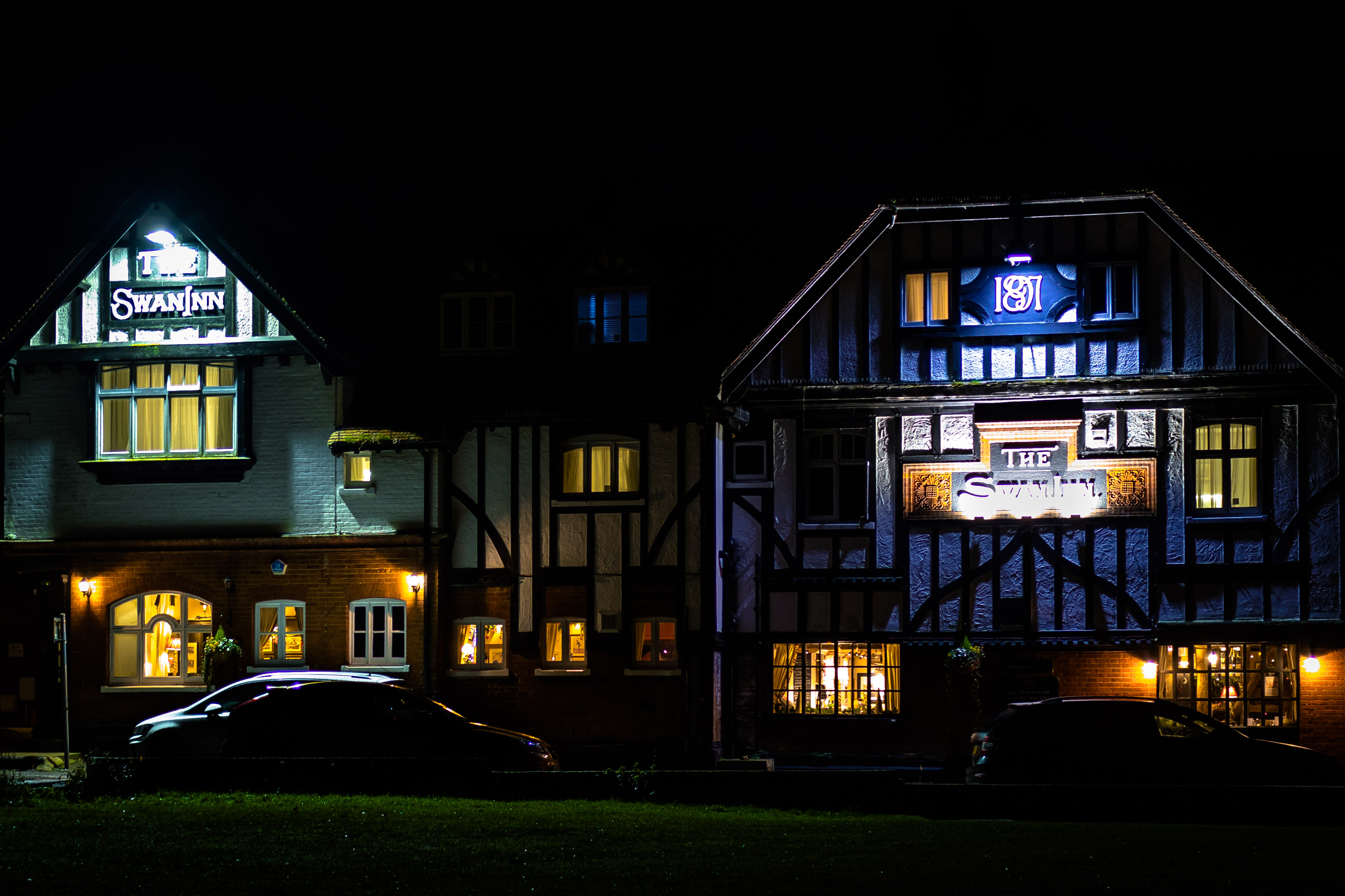 The Swan Inn, Horning